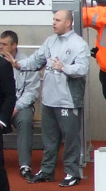 Chris Coleman managing Coventry City